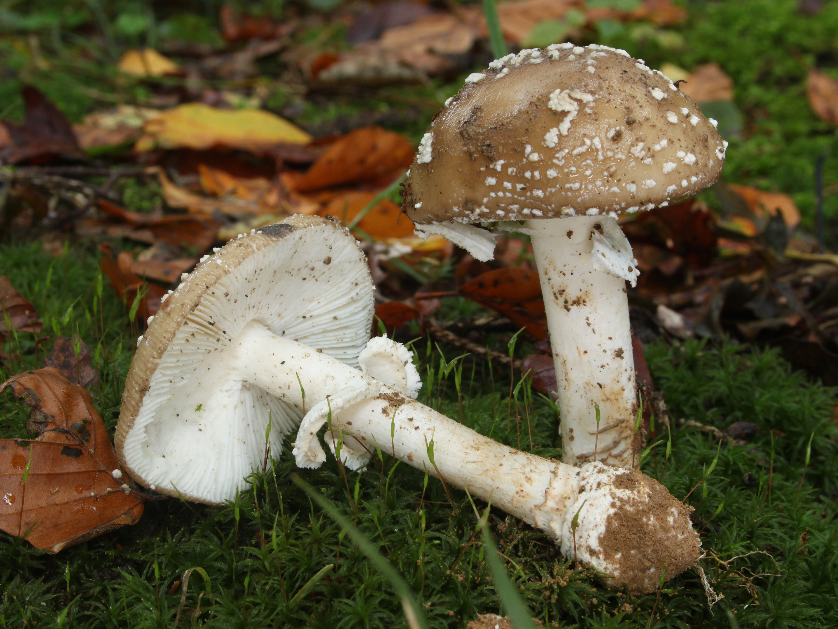 Panther Cap or False Blusher, Amanita pantherina, Family: Amanitaceae, Location: Germany, Erbach, Ringingen